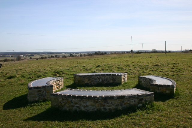 Maidscross Hill, Lakenheath Maidscross Hill is a Local Nature Reserve, a remnant of Brecks heathland. Its 50 hectares were opened in July 2004, with the help of lottery funding. The name is supposed to be a reference to 'maids' who carried crosses in religious ceremonies. The seating, designed by artist and sculptor Anita Rivera, represents the outer circle of a Celtic Cross.